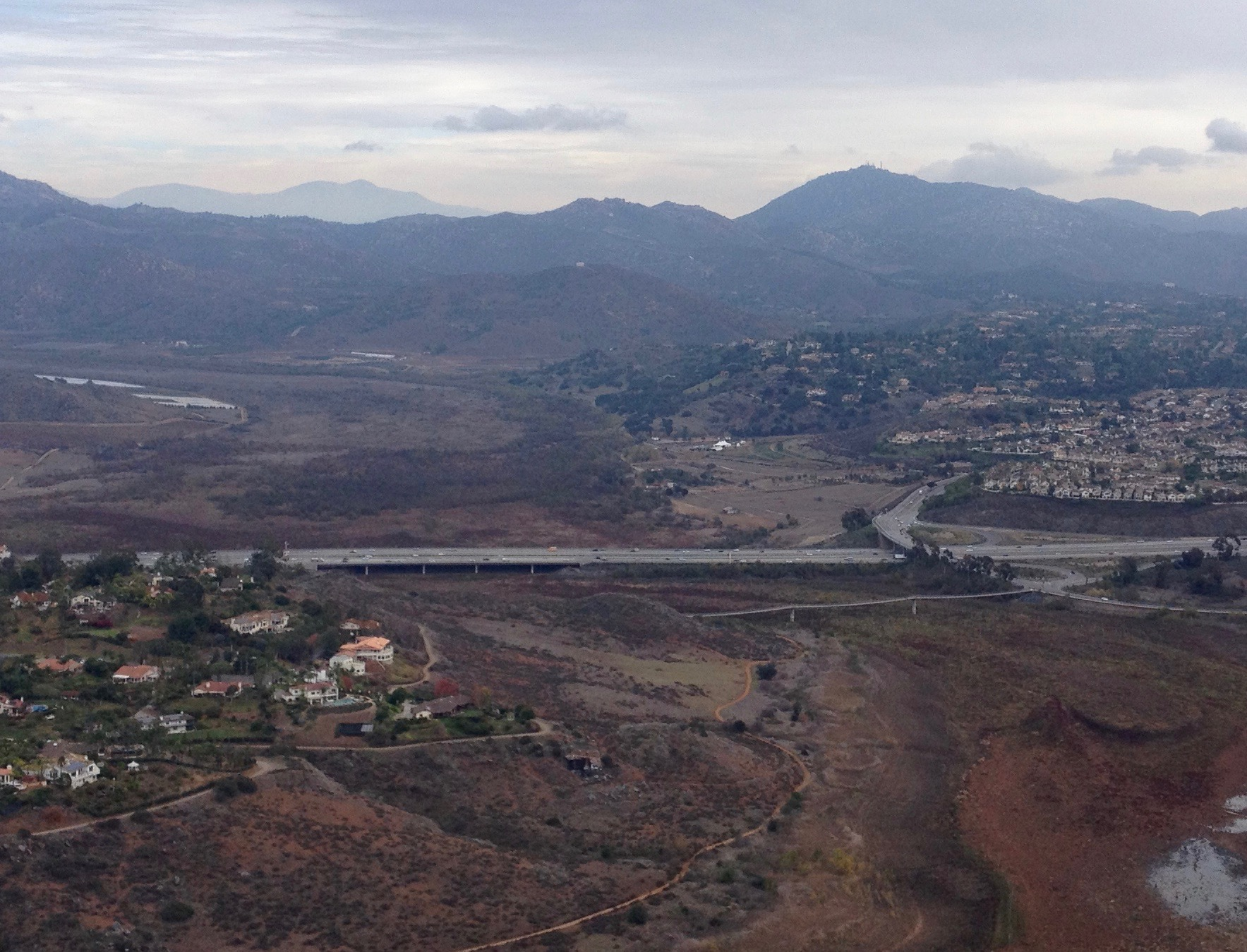 Lake Hodges Bridge (background) and David Kreitzer Lake Hodges Bicycle Pedestrian Bridge (foreground), over the nearly dry lake bed, in North San Diego County, California. View is from Bernardo Mountain, facing east. Interchange is with Pomerado Road on the east side and Bernardo Drive on the west side.